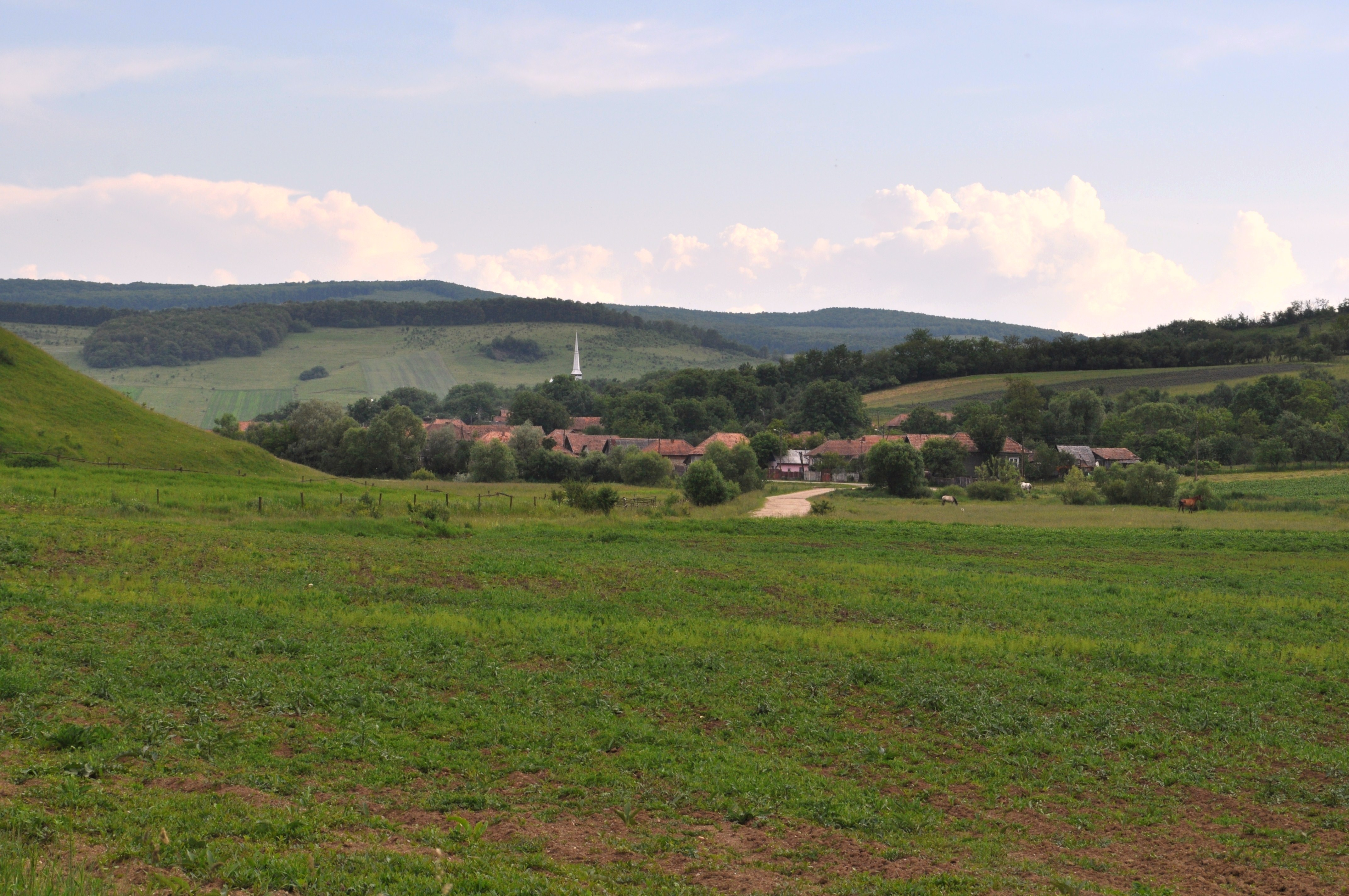 Așchileu Mare, Cluj county, Romania